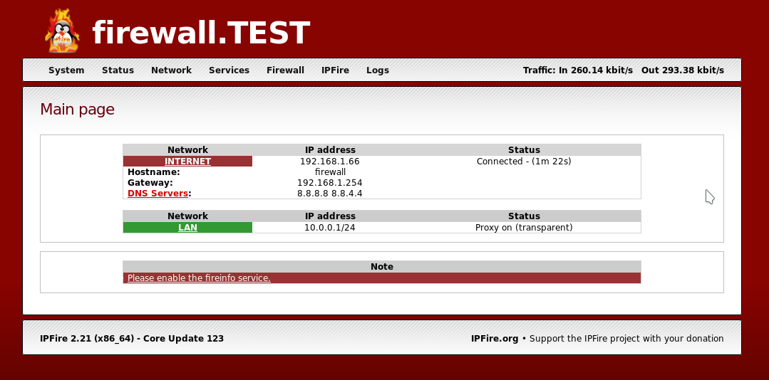 Screenshot of the web interface